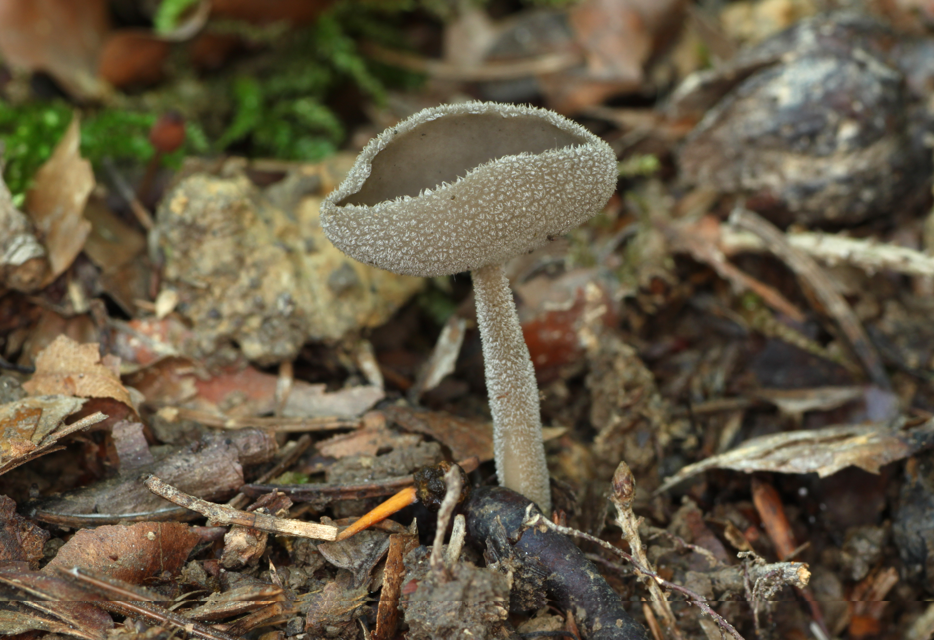 Helvella macropus, Family: Helvellaceae, Location: Germany, Erbach, Ringingen